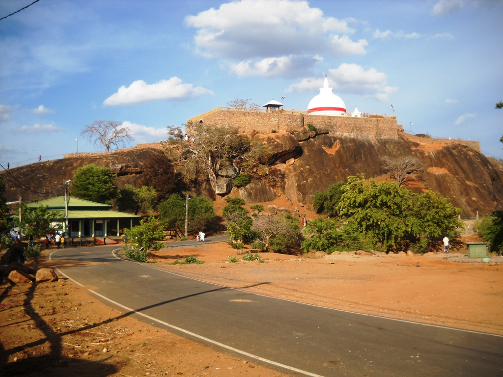 In the Chronicles and in inscriptions Sithulpawwa Vihara is known as Cittalapabbata Vihara built by King Kavantissa (100-140 B.C.). Mahavamsa states that King Kavantissa of Ruhuna had constructed a fully fledged monastery and had held religious observances for seven days before bestowing it to the Buddhist monks.